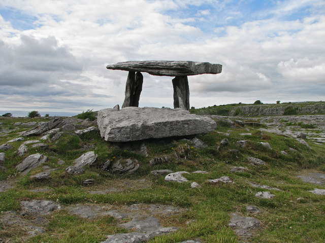 Poulnabrone portal tomb, near to Caherconnell, Clare, Ireland.